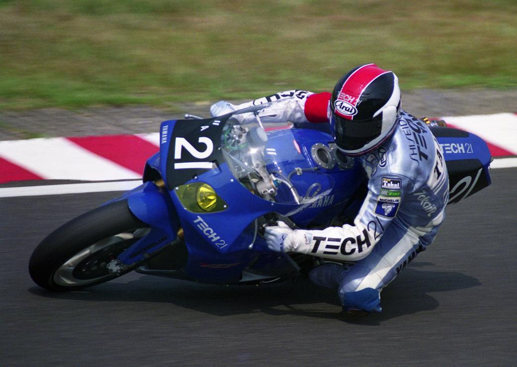 Tadahiko Taira in SUZUKA 8H 1990,at Official Qualifying Session